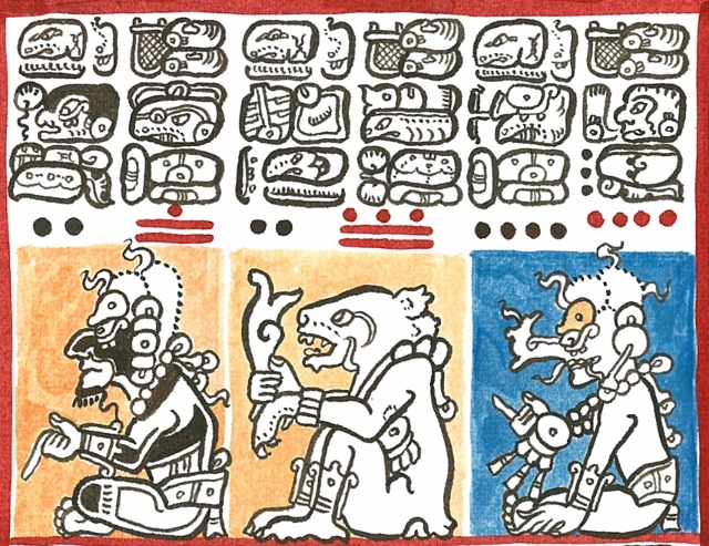 detail of Dresden Maya Codex, drawn by Lacambalam